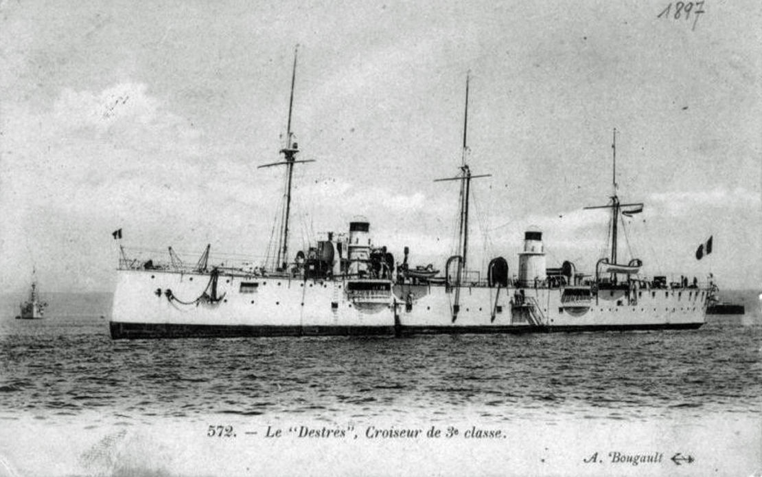 French cruiser D'Estrés, named in honour of Victor-Marie d'Estrées